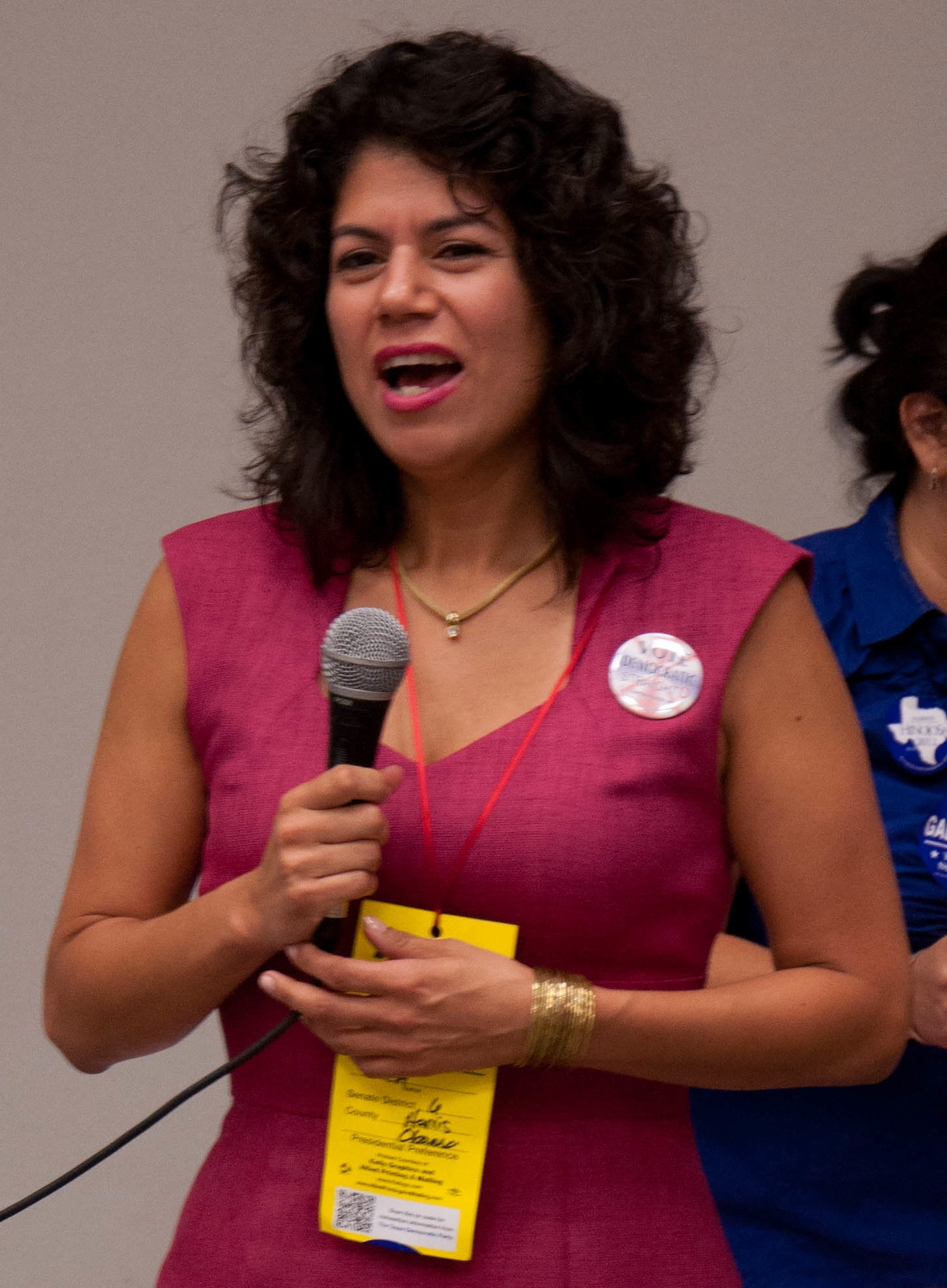 Texas State Representative Carol Alvarado at the Texas Democratic Convention, 2012.